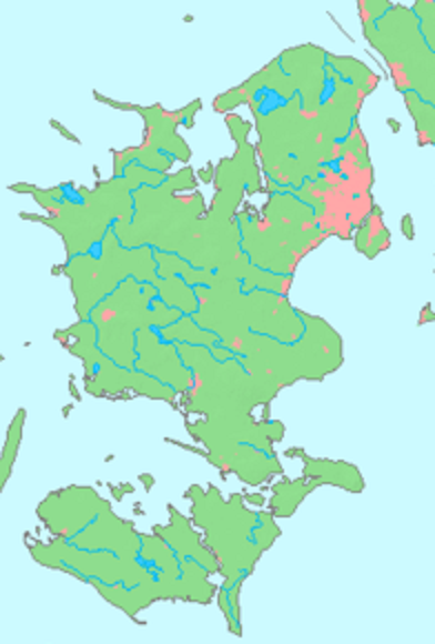 Island Sjælland (Zeeland) in Denmark. Bounding box West 10.8°, South 54.9°, East 12.8°, North 56.2°. Center at 55°33′00″N 11°48′00″E / 55.55000°N 11.80000°E.